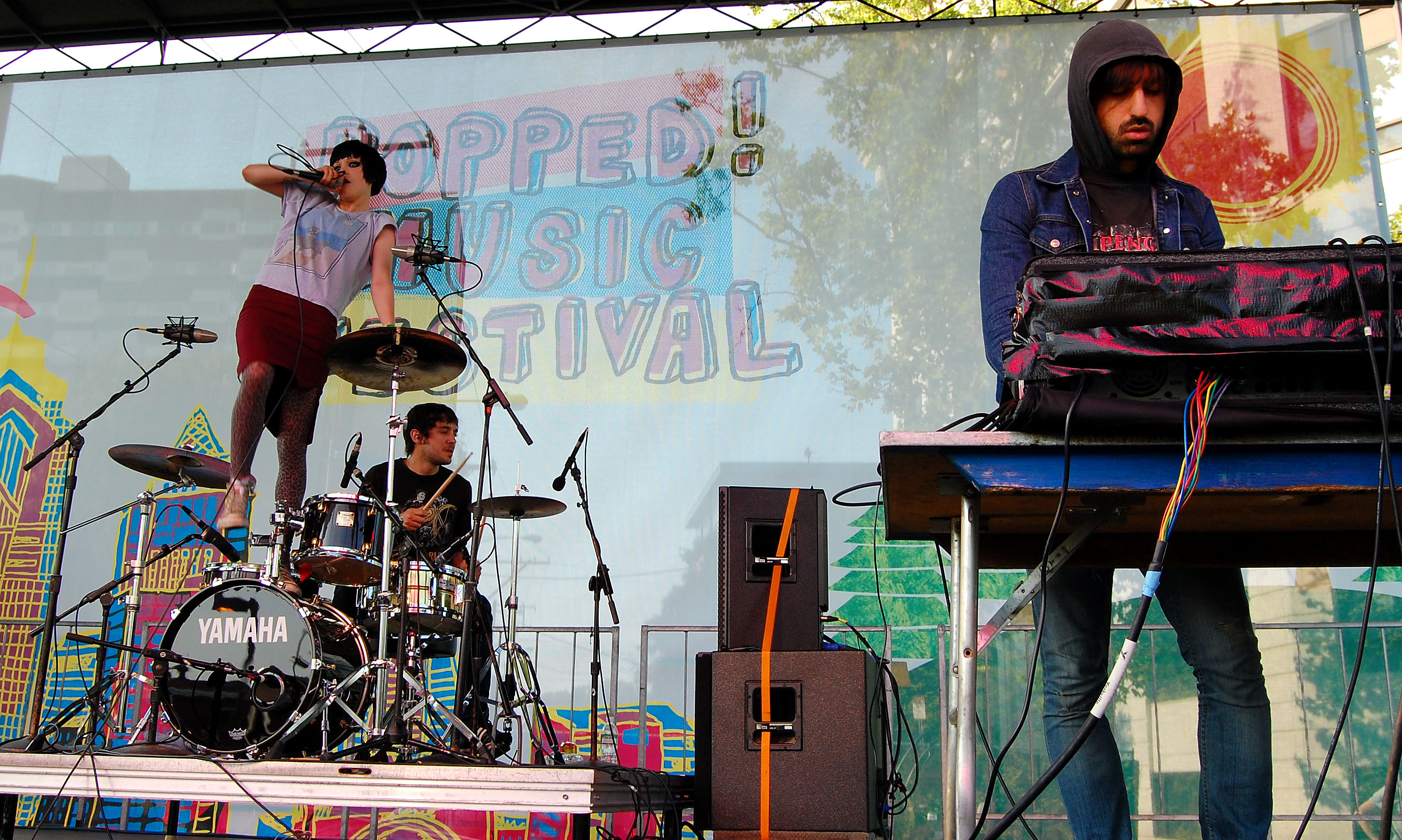 Crystal Castles performing at the Popped! Music Festival in University City, Philadelphia.